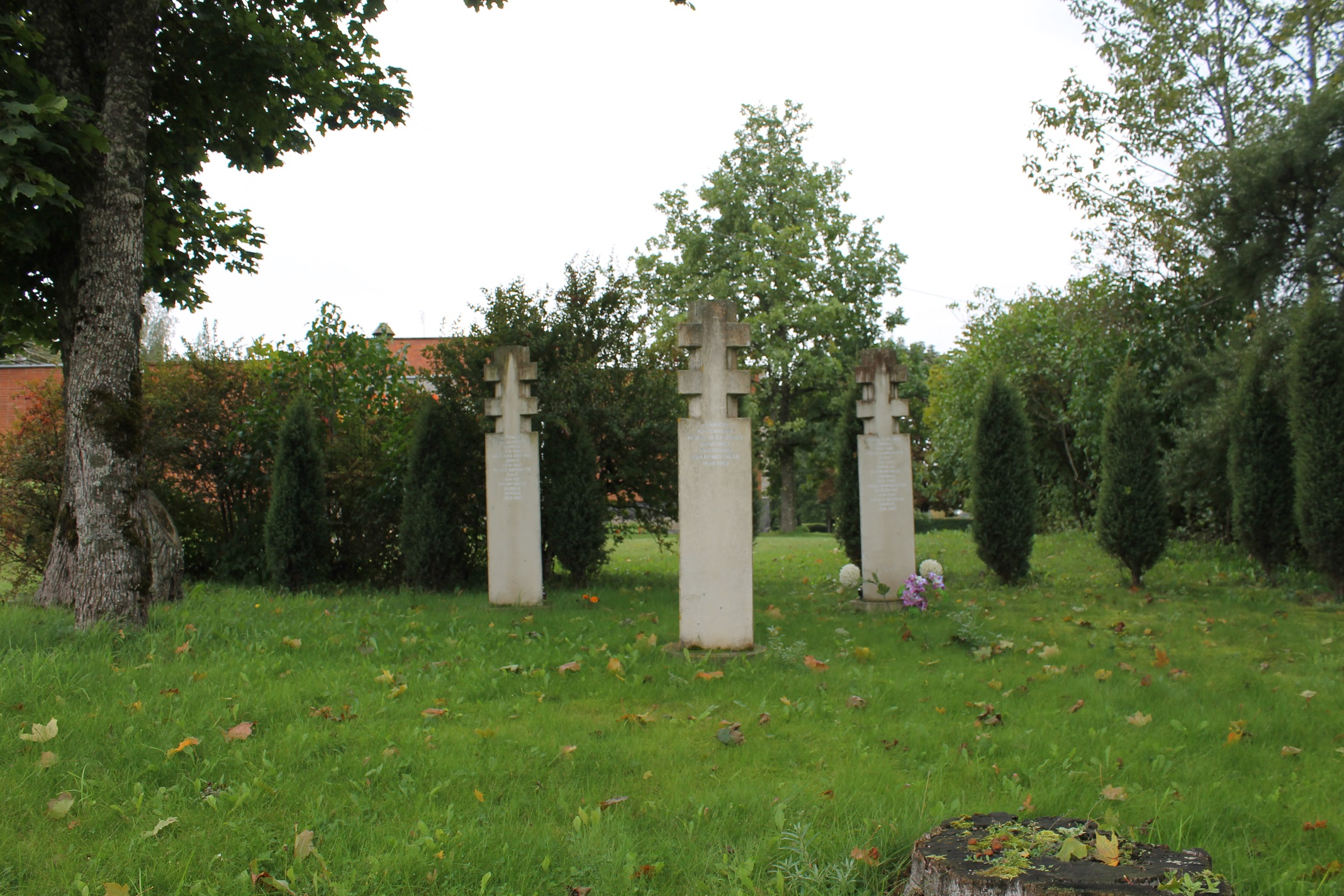 Alsėdžiai, Plungė district, LithuaniaLietuvių: Alsėdžių paminklas partizanams, Plungės rajonas, Lietuva